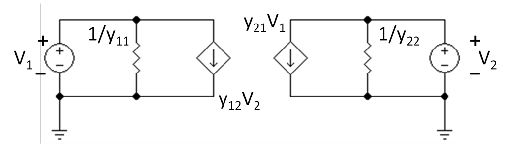 y-parameter two-port